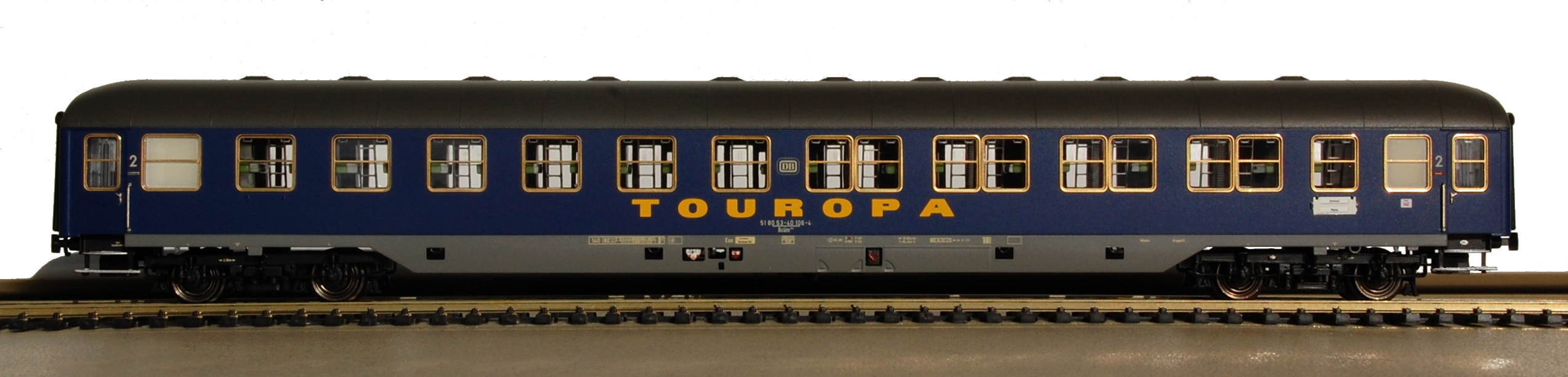 Scale model LS Models of the Touropa Bcüm254 couchette car.